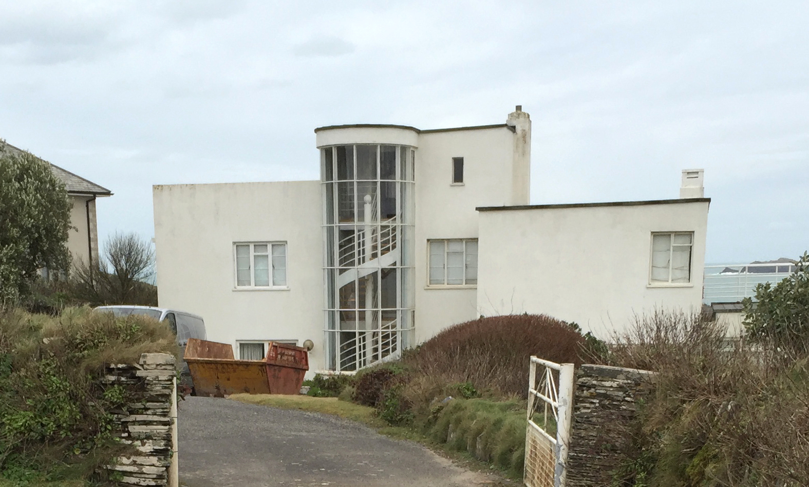 Grade II listed Polventon House, Mother Ivey's Bay, Cornwall built in the International Style in 1936 for Eric Stein